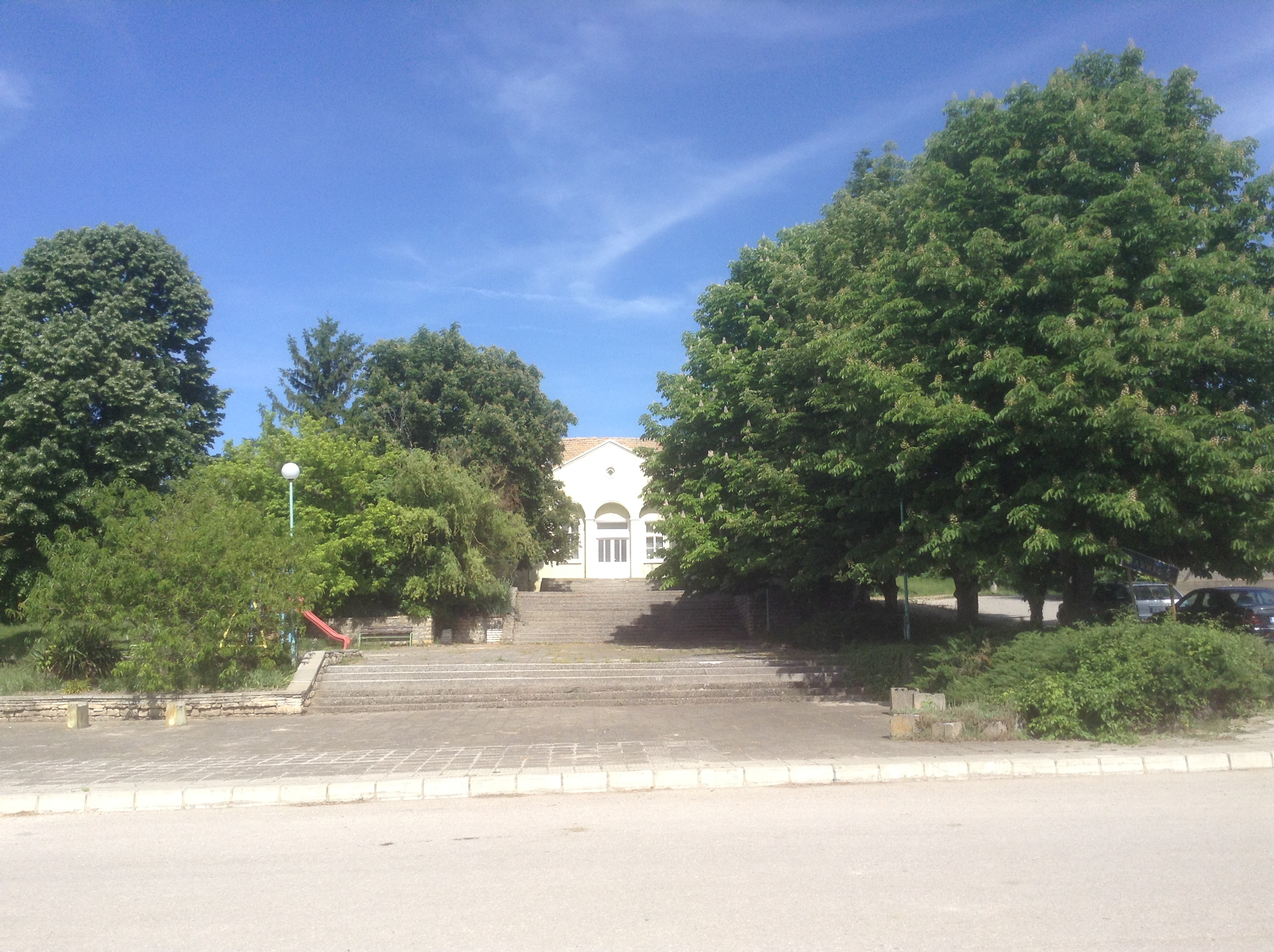 People's lyceum by the name of Hristo Botev in the village of Struyno, Bulgaria